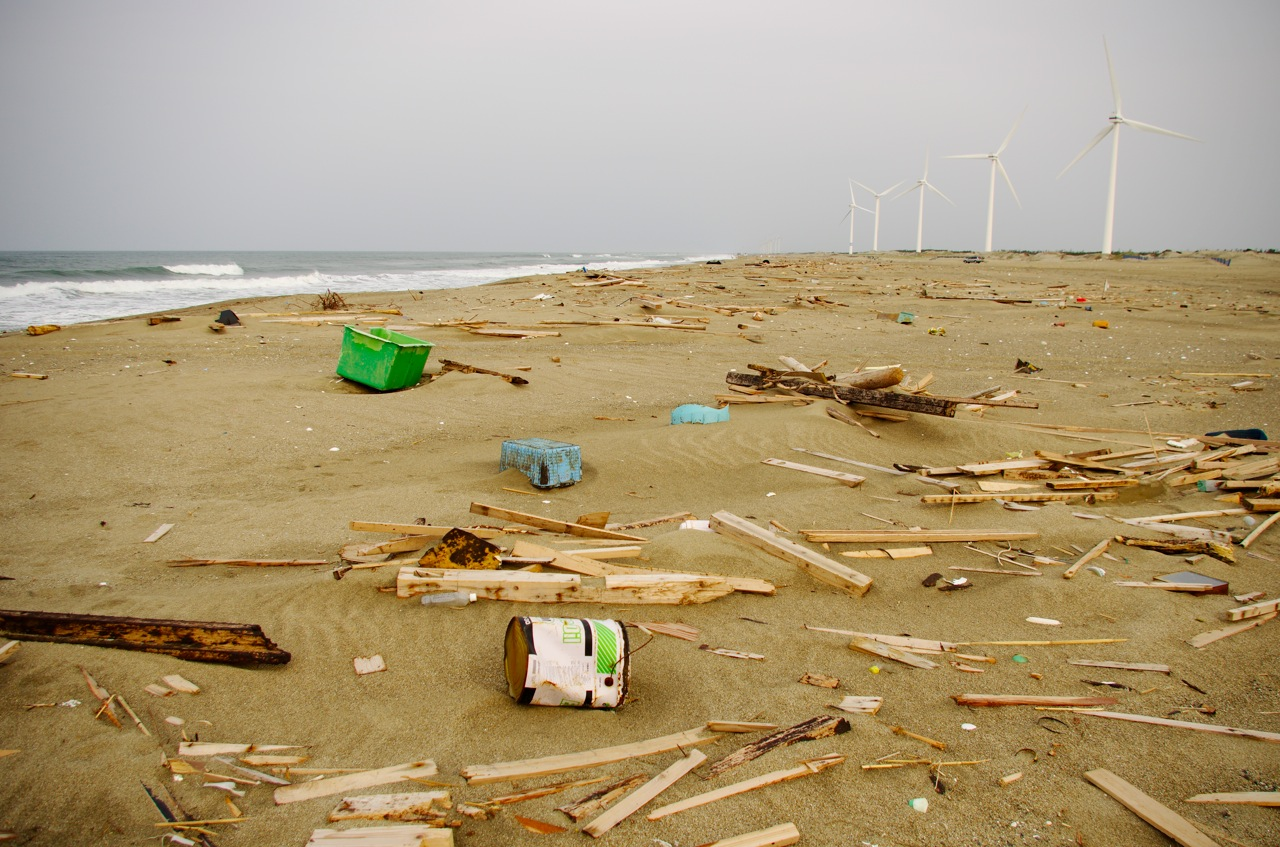 The rubble drifted into Kashima Nada, Ibaraki Prefecture after tsunami. Taken in Hikawahama, Kamisu, Ibaraki.